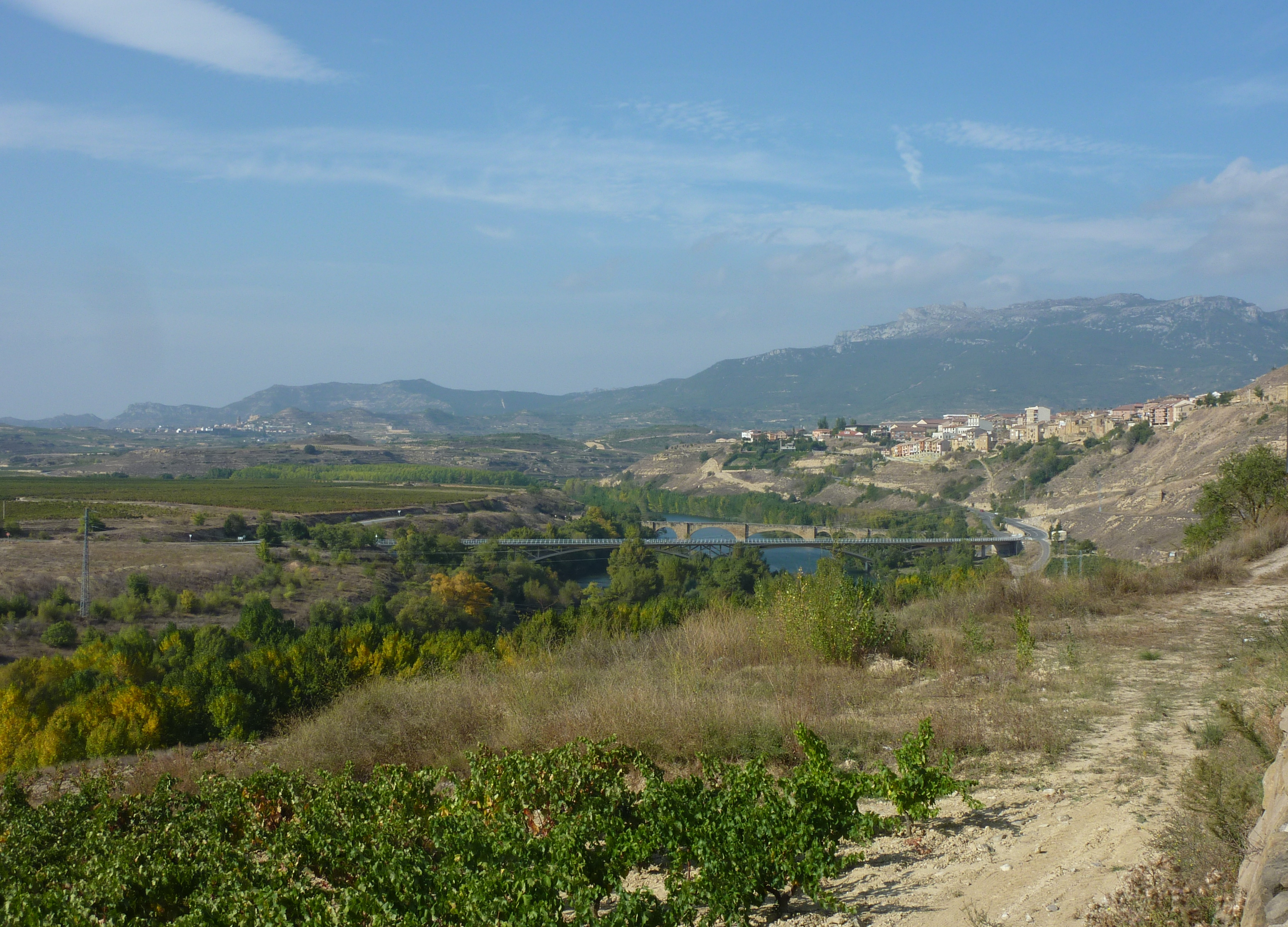 The Rioja Alta wine region near Briones, the Río Ebro and in the background the beginning of the Basque Country.